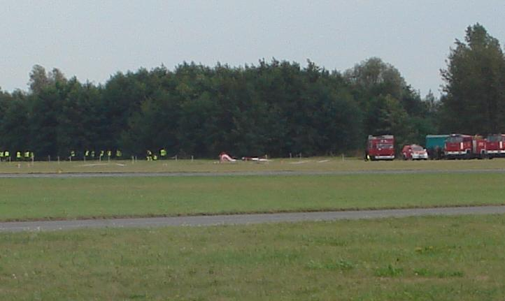 Fatal accident of AZL Zelazny aerobatic team in Radom, Poland